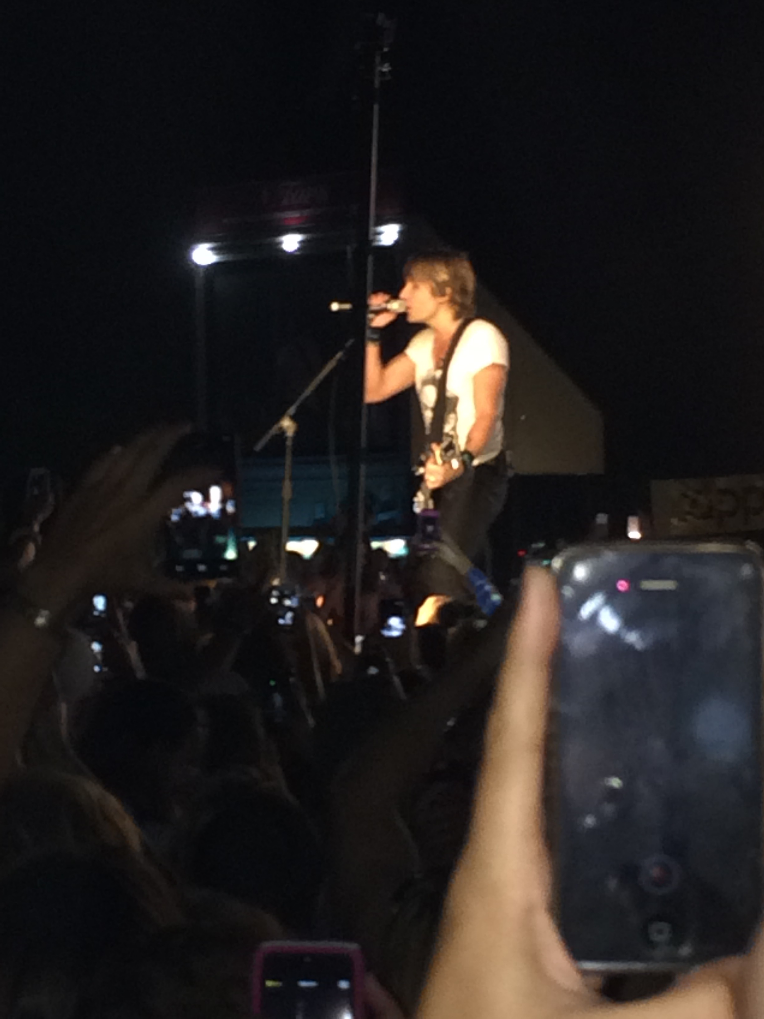 Keith Urban on July 25th, 2014 Performing at Darien Lake